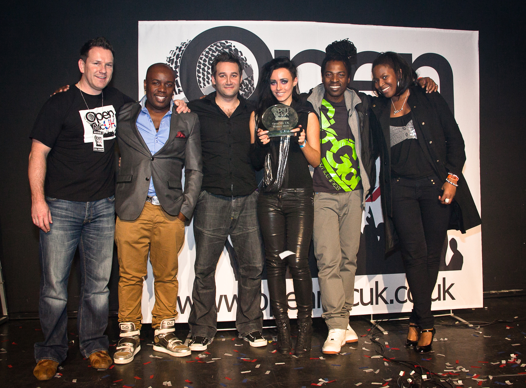 Judges of Open Mic UK 2010, with Hatty Keane holding trophy in center, and Ras Kwame second to right, Chris Grayston far left